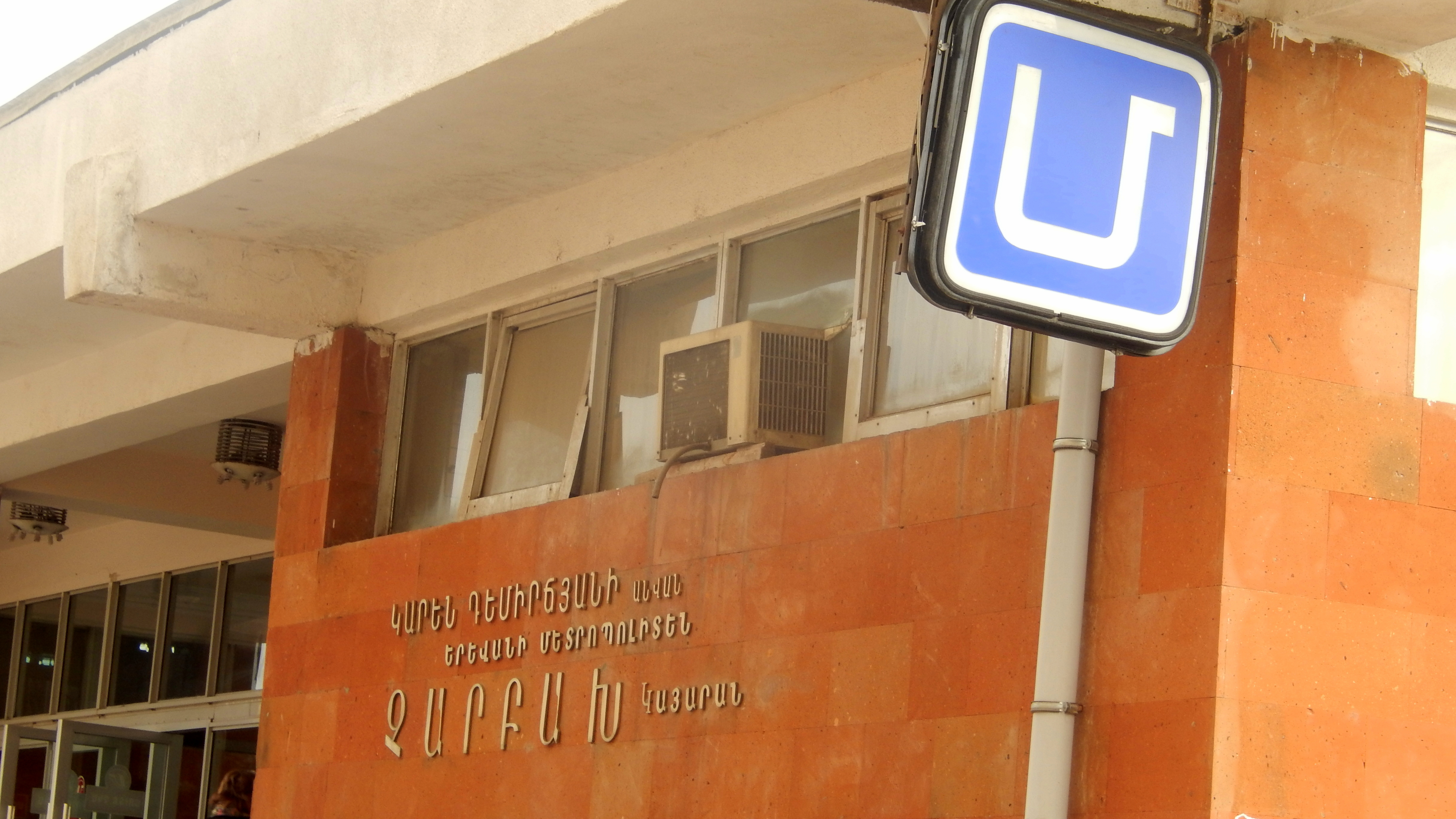 Charbakh Metro Station, Yerevan